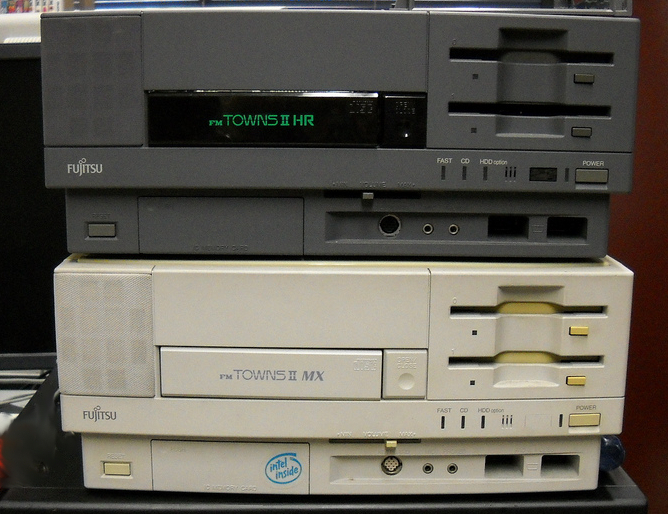 Fujitsu FM TOWNS II (HR and MX models)